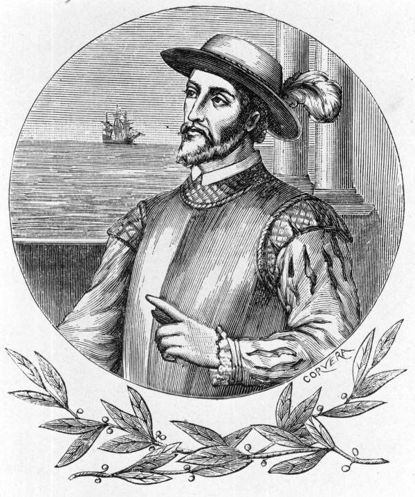 Spanish conquistador Juan Ponce de Leon